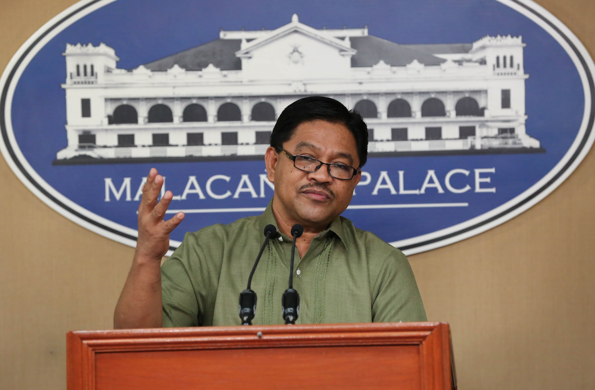 Department of Agrarian Reform Secretary Rafael 'Ka Paeng' Mariano bares details of his department’s planned policy reforms during a press briefing in Malacañan on September 13.